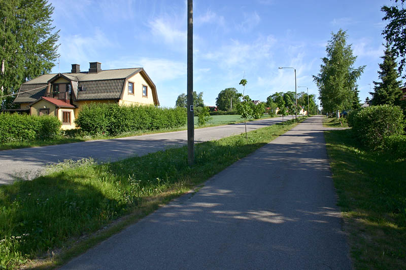 Connecting road 3131 at Vesivehmaa village in Asikkala, Finland (shadows lightened with Photoshop)